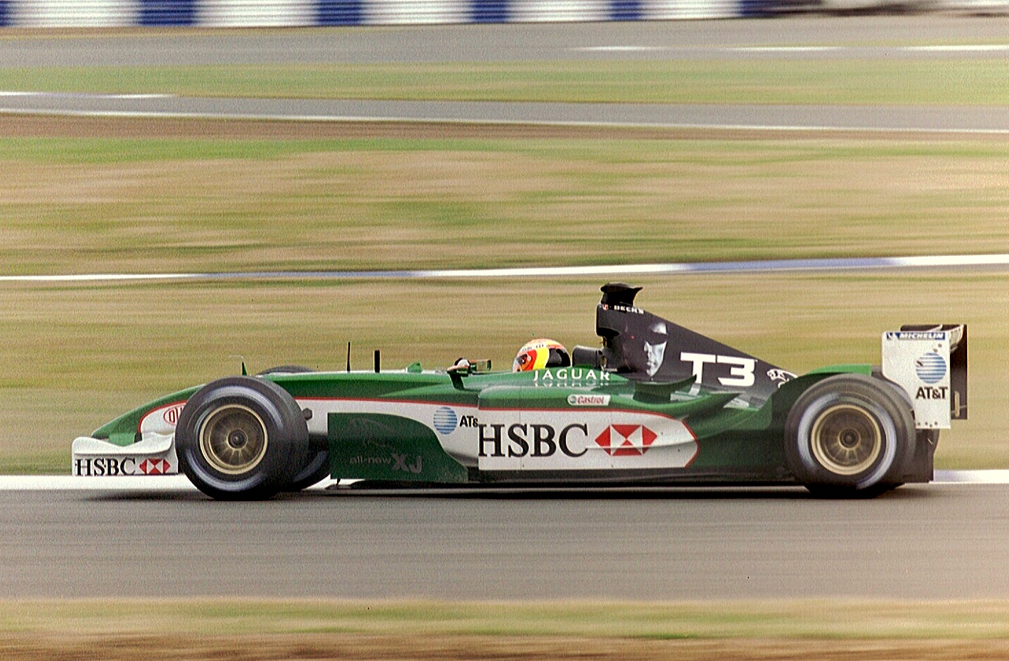 Antônio Pizzonia, driving his Jaguar Cosworth at the 2003 British Grand Prix.